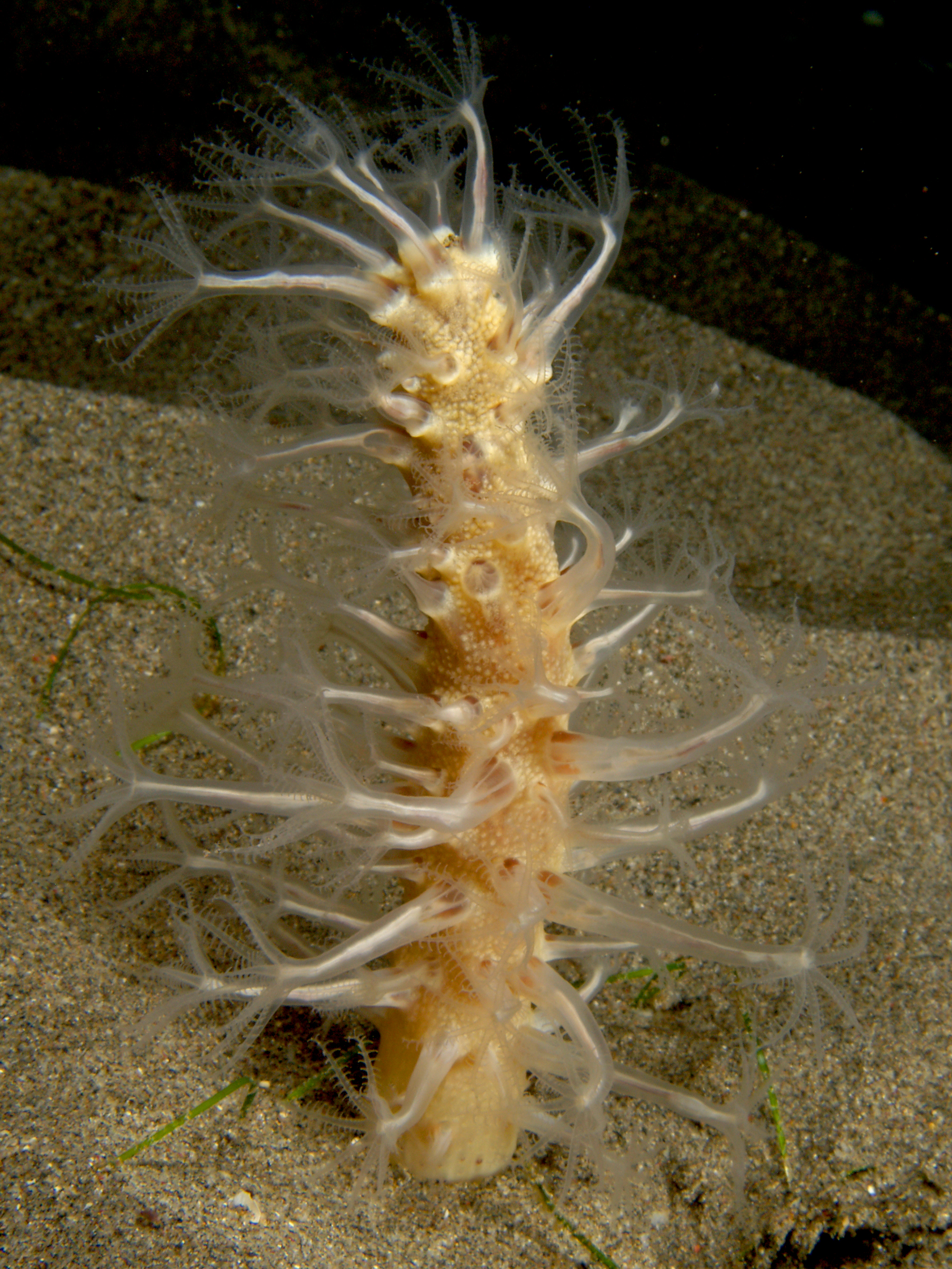 Veretillum sp. (Sea pen) at night